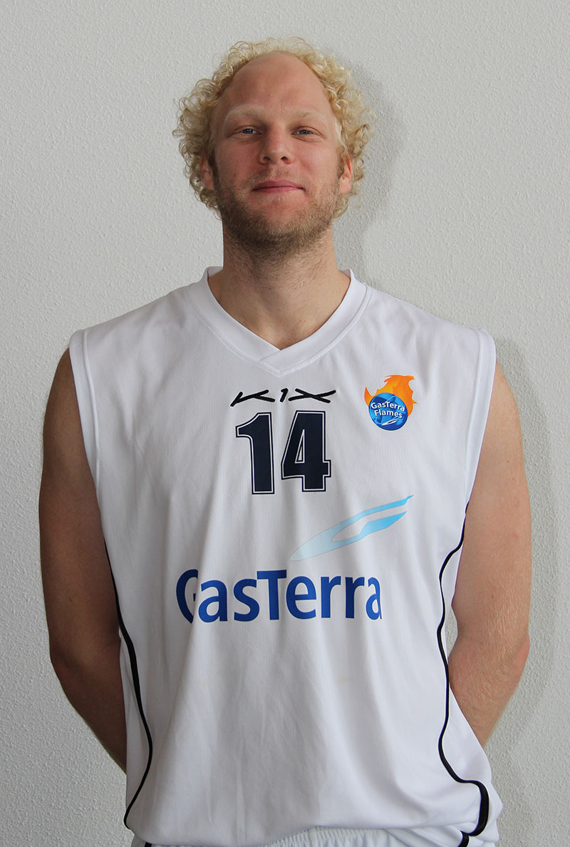 Michael Kingma in the GasTerra Flames uniform for the 2012-2013 season